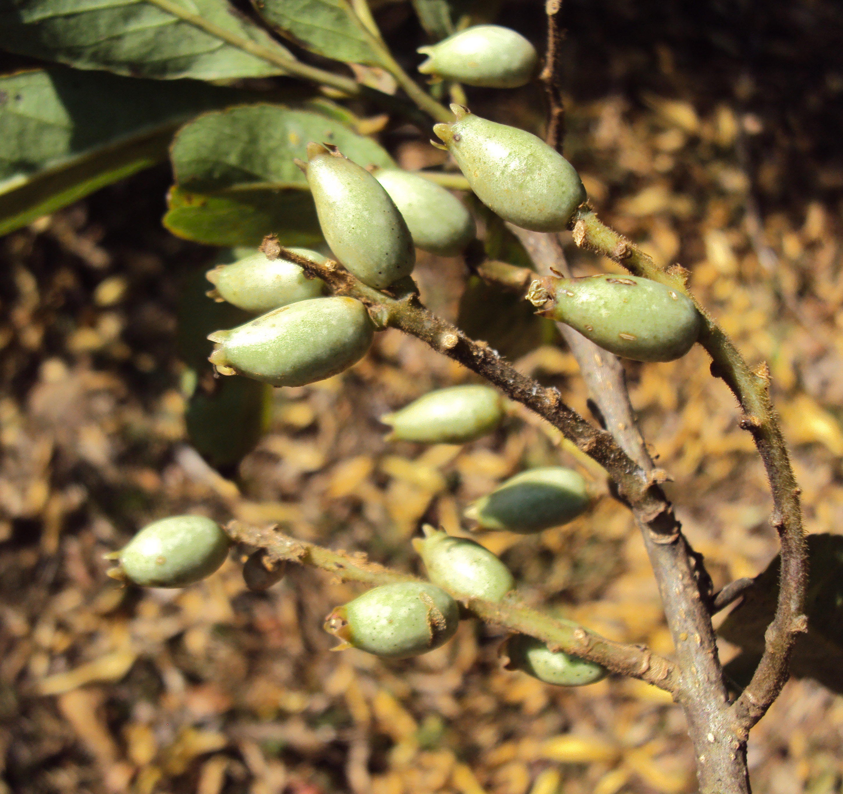 Symplocos Racemosa